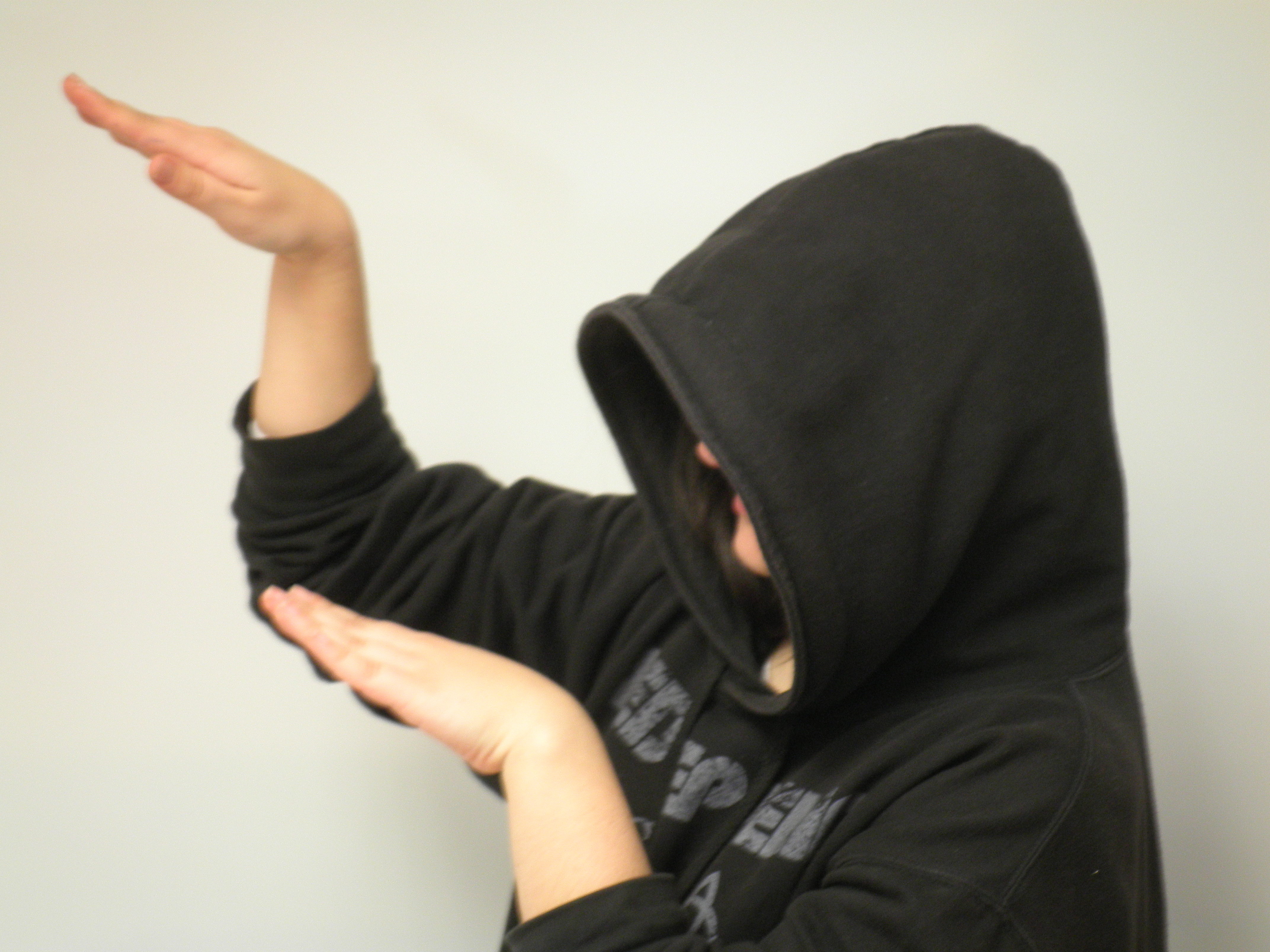 Child performing El Neng de Castefa's gesture. El Neng de Castefa was a famous parodic personnage in Spain in late 2000s.